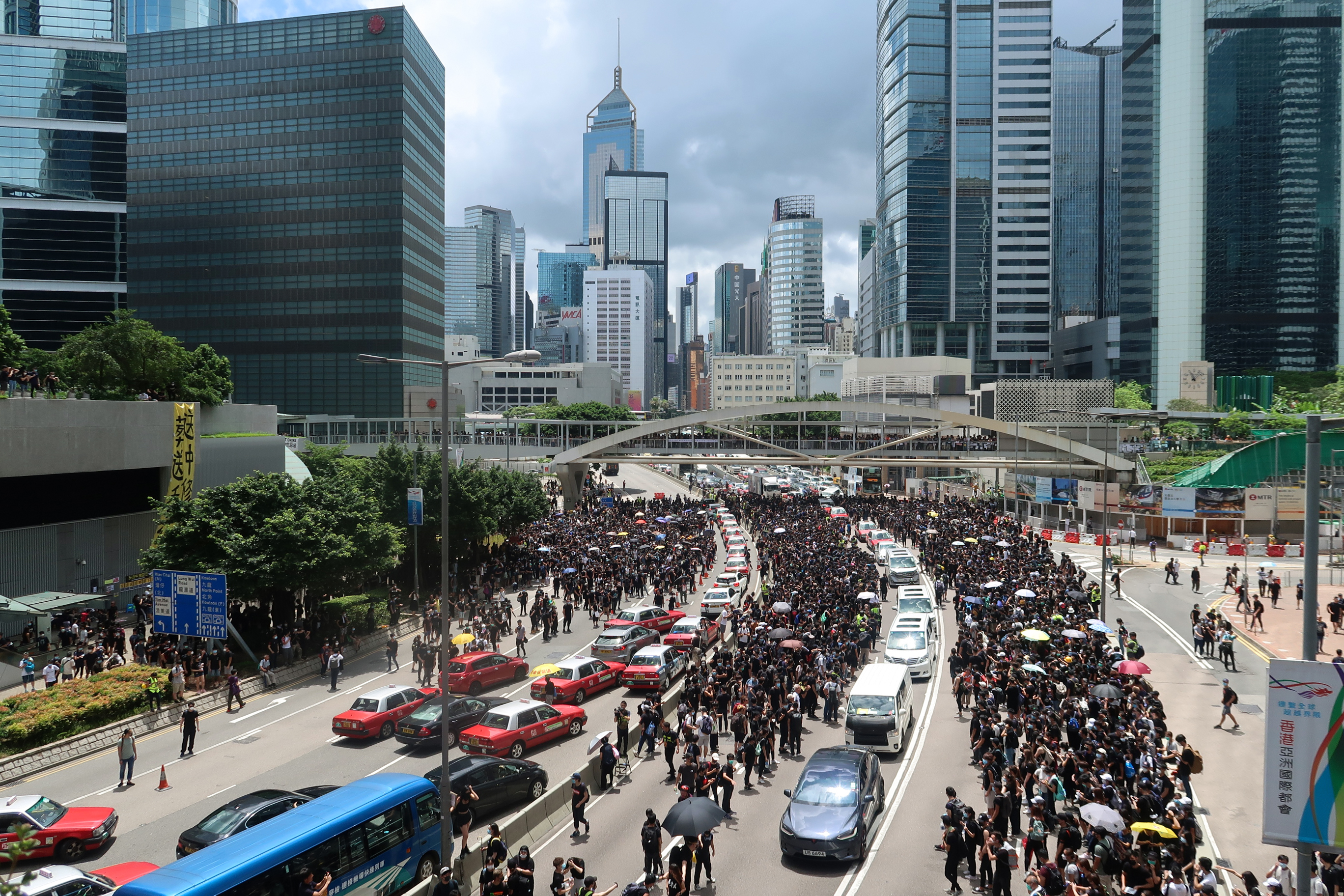 Protester occupy Harcourt Road and allow vehicle to leave